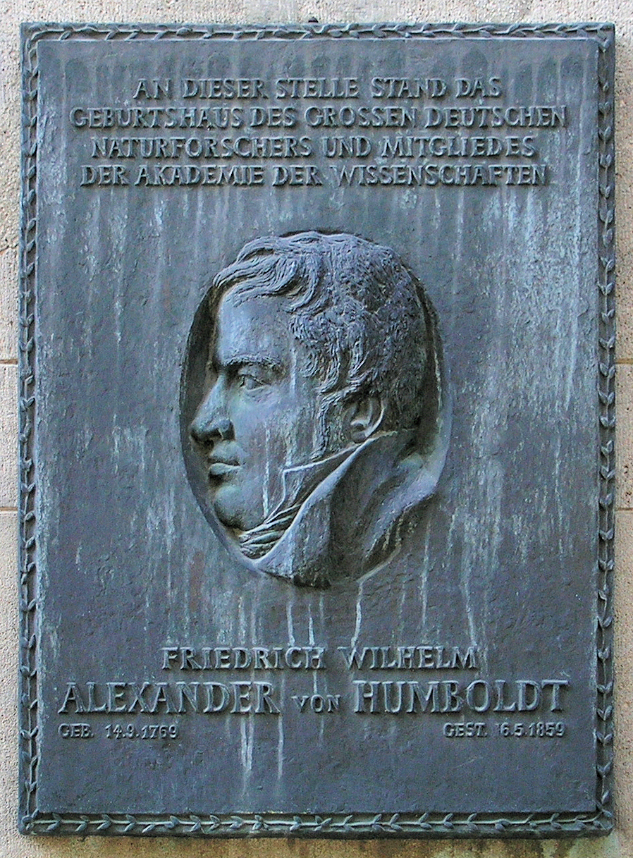 Memorial plaque, Alexander von Humboldt, Jägerstraße 22-23, Berlin-Mitte, Germany Koordinate:52°30′50″N 13°23′39″E / 52.51389°N 13.39417°E